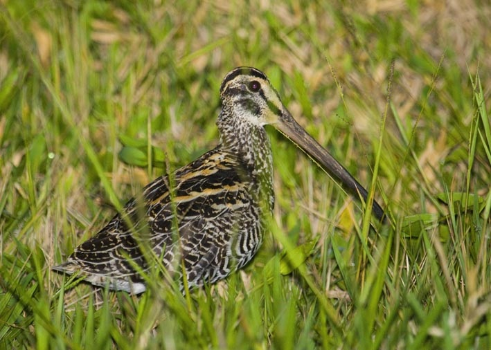 Gallinago undulata at Pousada Bacury (Anhembi, Sao Paulo, Brazil) Uncropped version: File:Gallinago undulata.jpeg